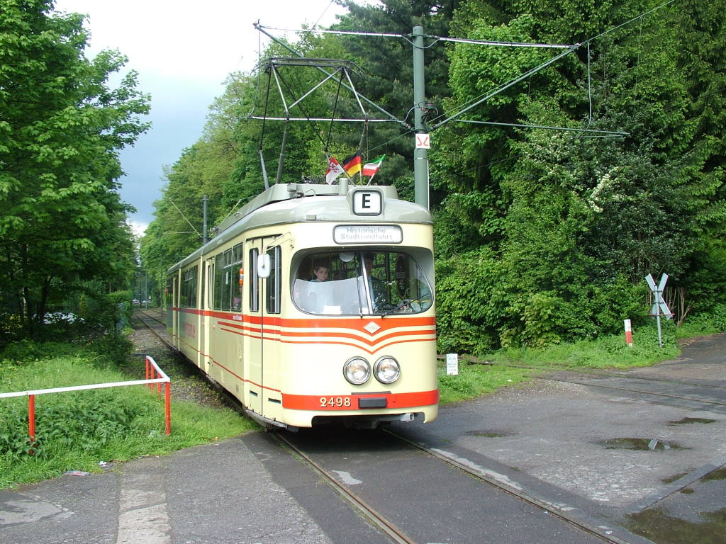 historic tramcar 2498 (built 1960 by Duewag) of Rheinbahn at Oberrath stop, 2005-05-08